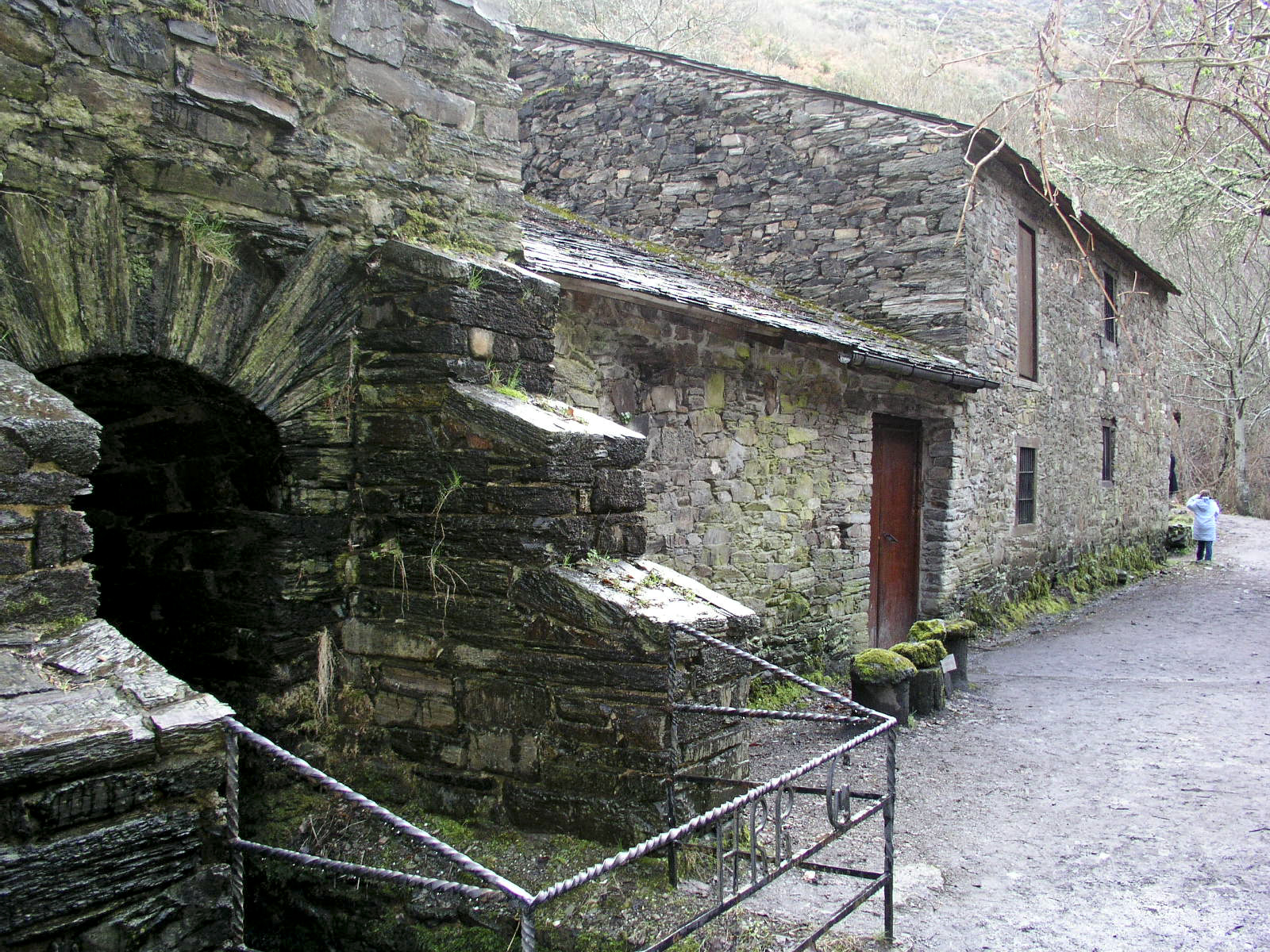 Forge at Compludo, Province of León, Spain. View